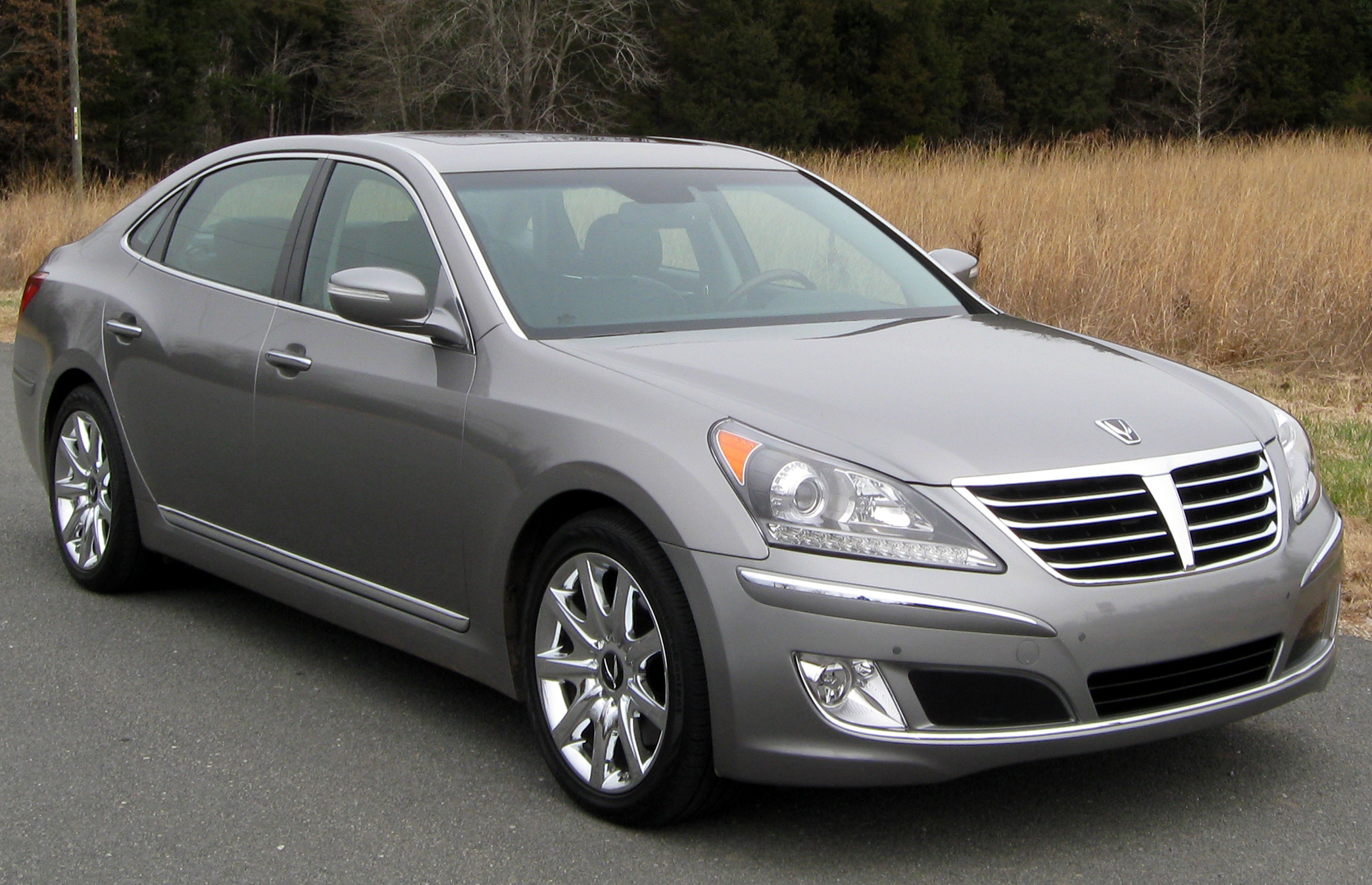 2011 Hyundai Equus Signature photographed in Centreville, Virginia, USA.